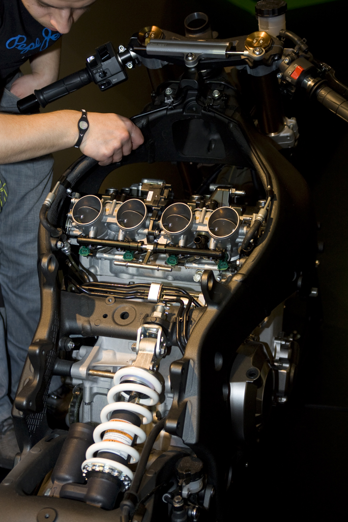 2011 Kawasaki ZX10R view below airbox. At Swiss-Moto show, Zurich, Switzerland